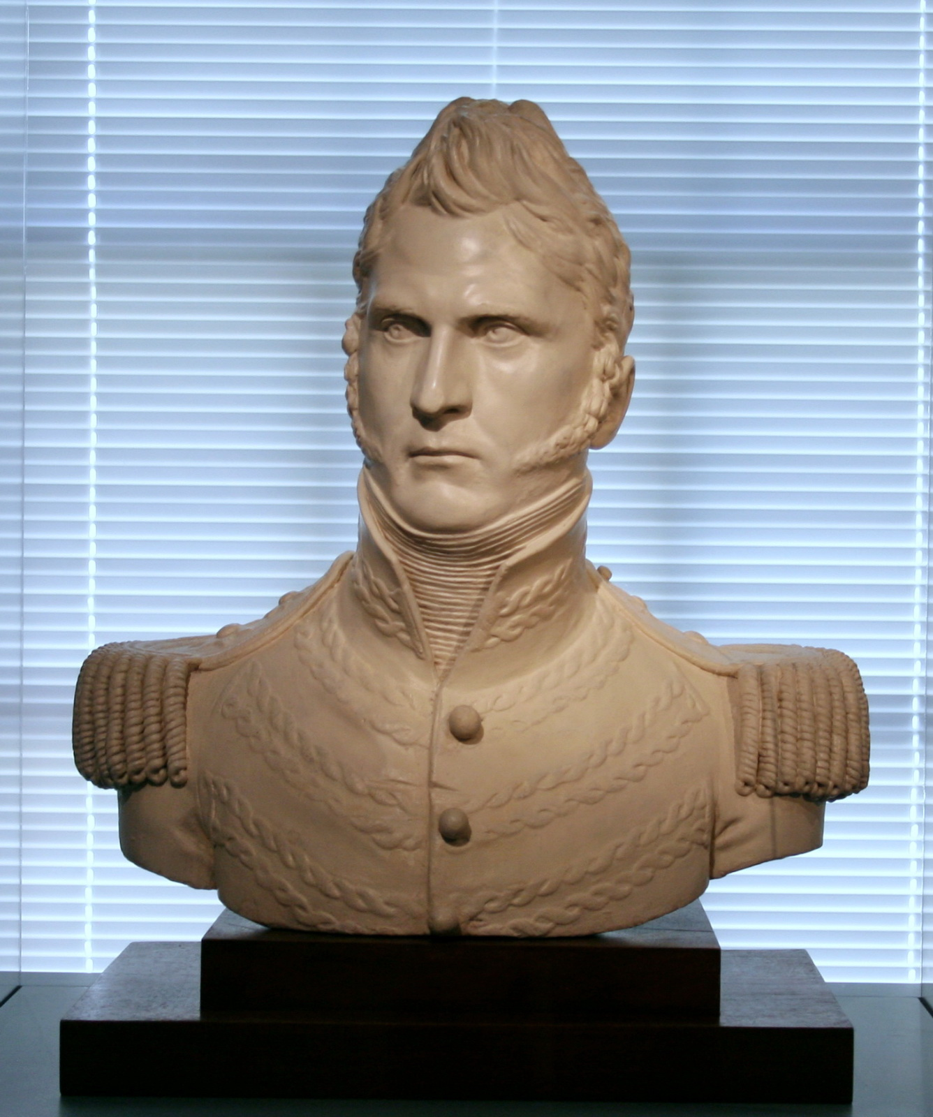 General Winfield Scott, c. 1814, Plaster by William Rush